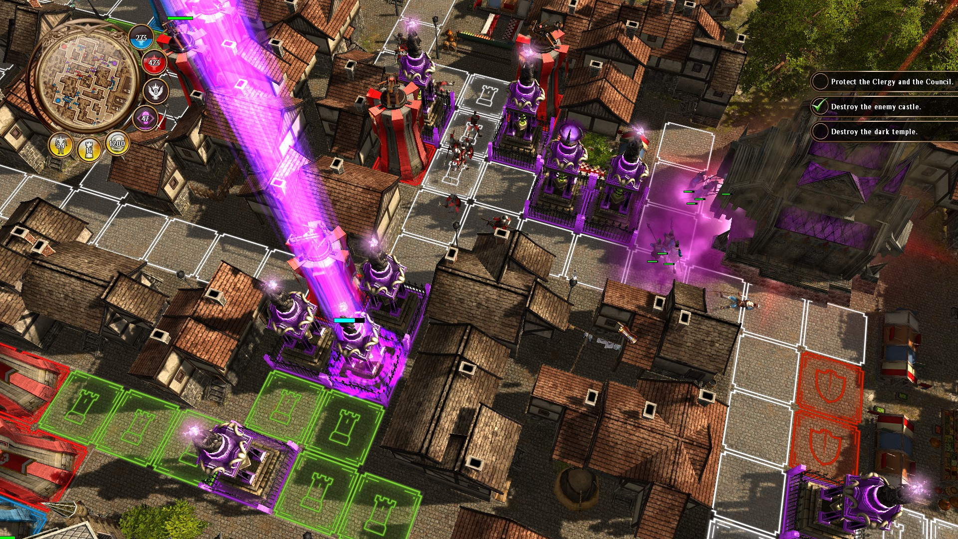 Screenshot from the video game Defenders of Ardania